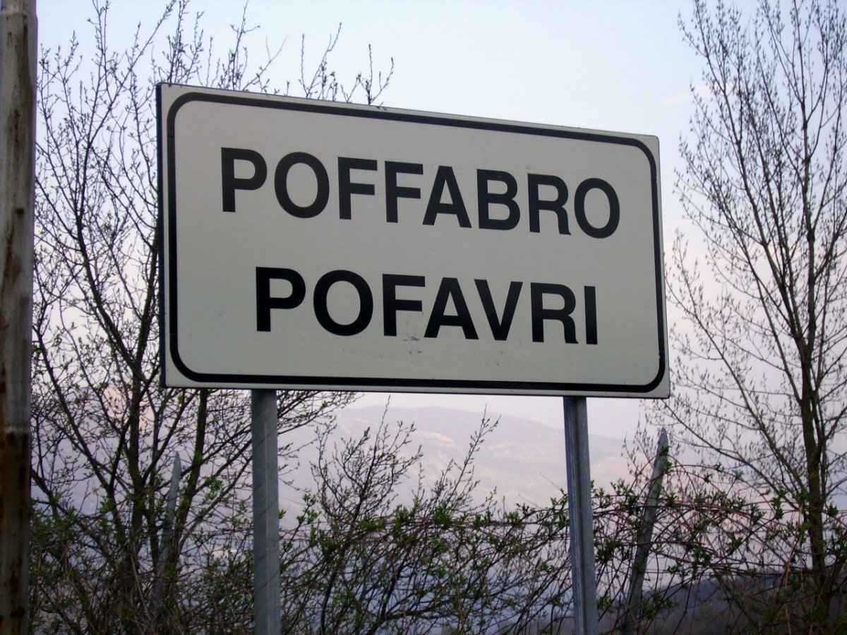 Bilingual sign Italian/Friulian, Poffabro (Frisanco), Friuli-Venezia Giulia, Italy